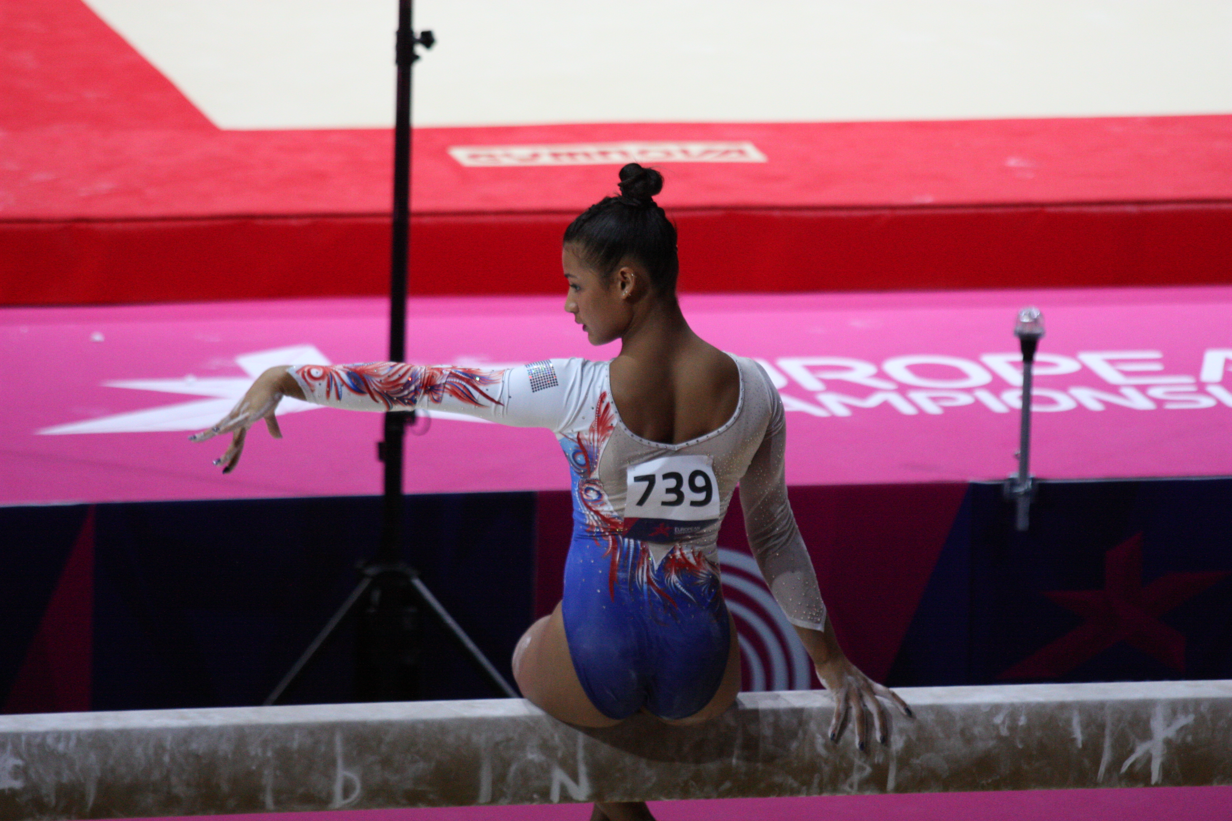 Marine Boyer during the qualifications of the 2018 European Championships in Glasgow.